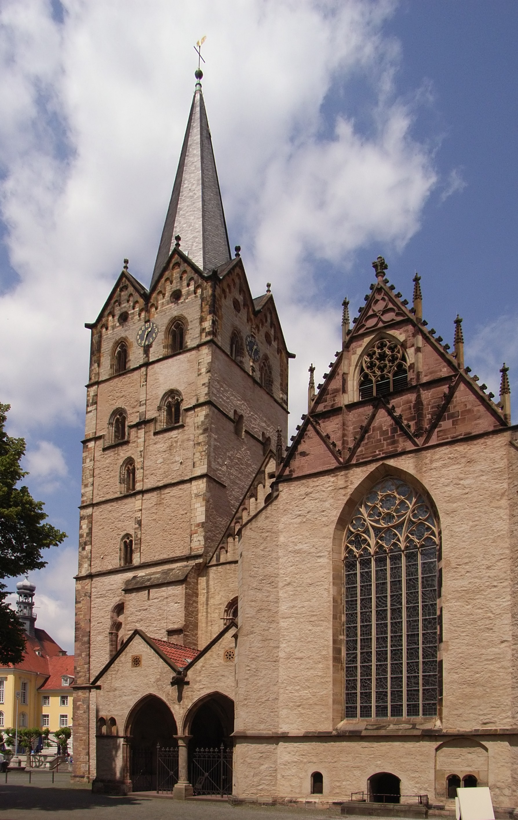 Cathedral in town of Herford, District of Herford, North Rhine-Westphalia, Germany.